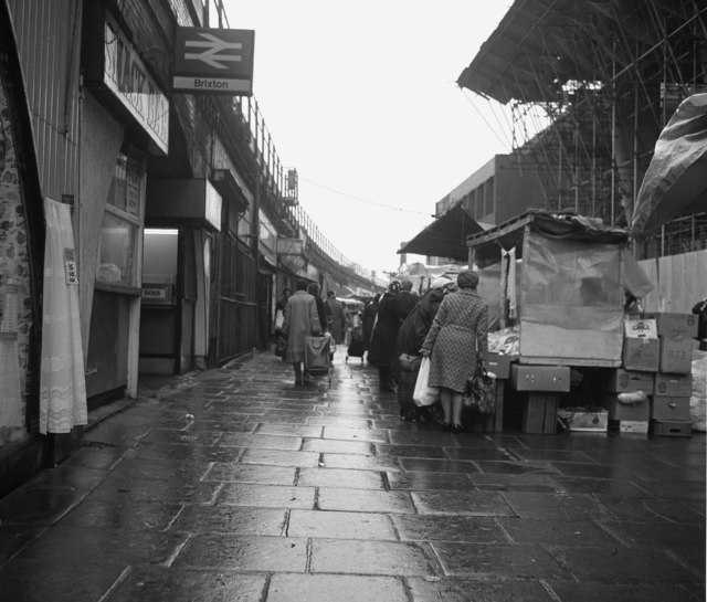 Street Market, Brixton (3)